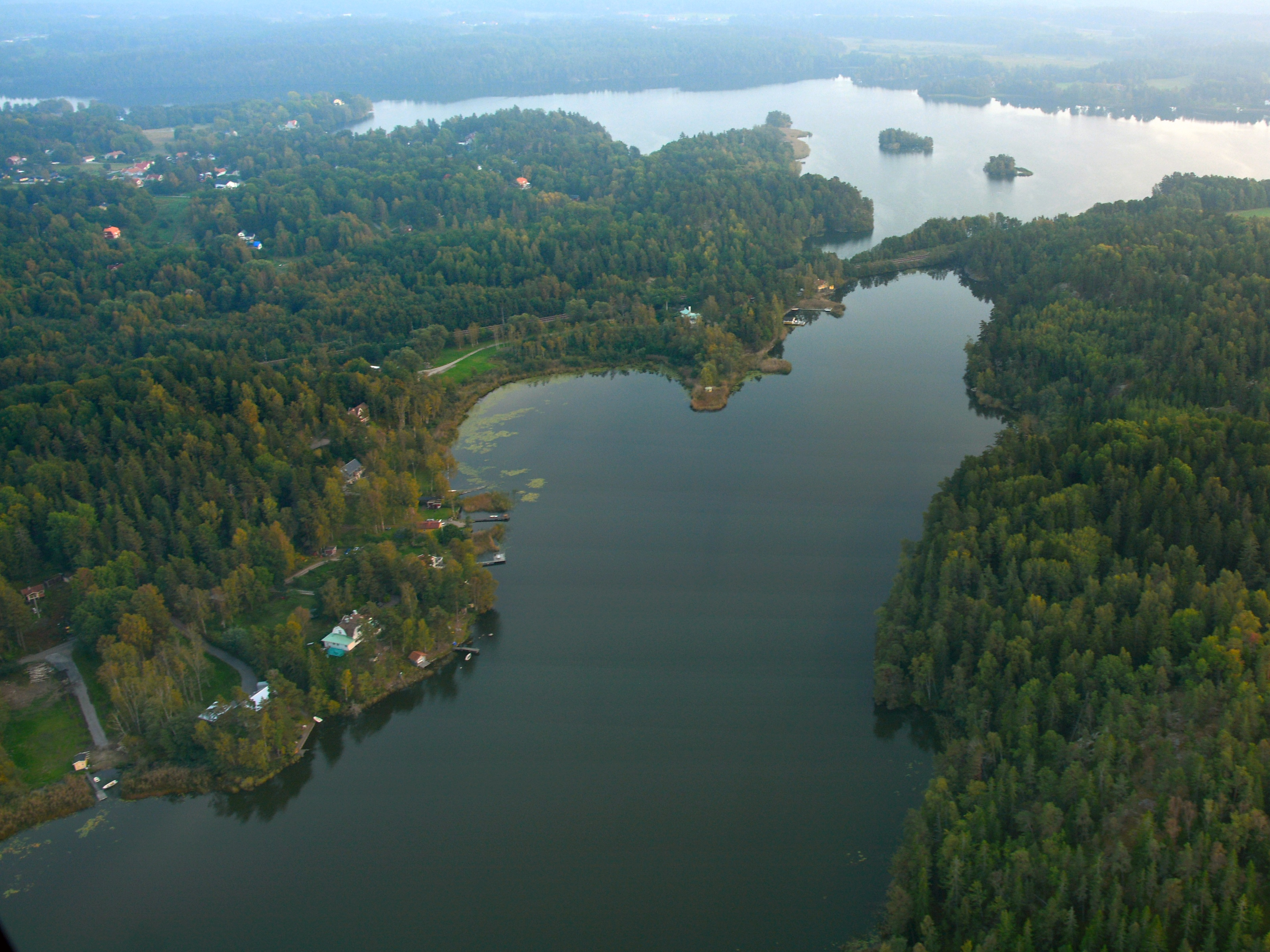 The lake Dånviken in Salem municipality, Sweden.